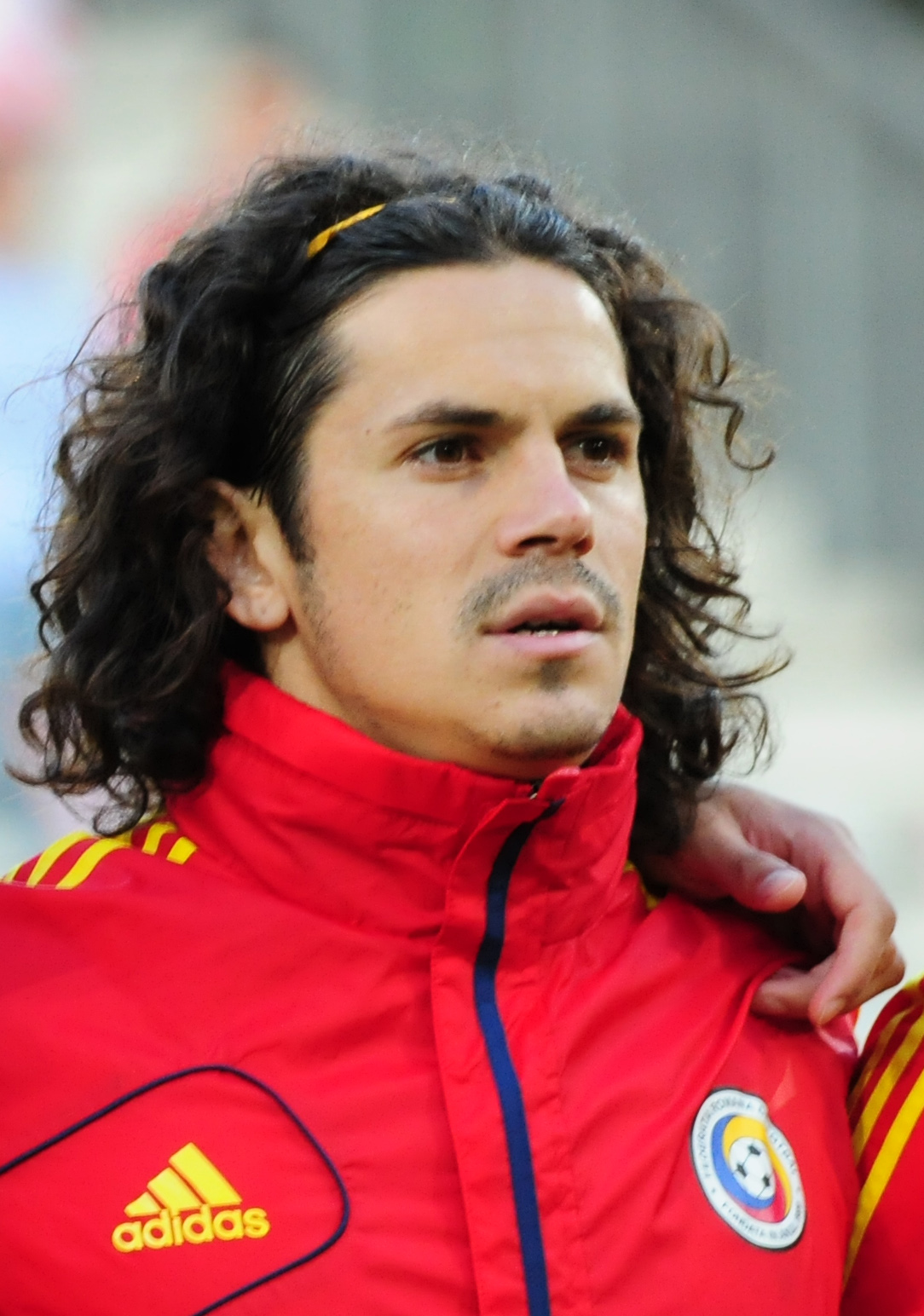 Exhibition game Austria vs. Romania at 5st. June 2012